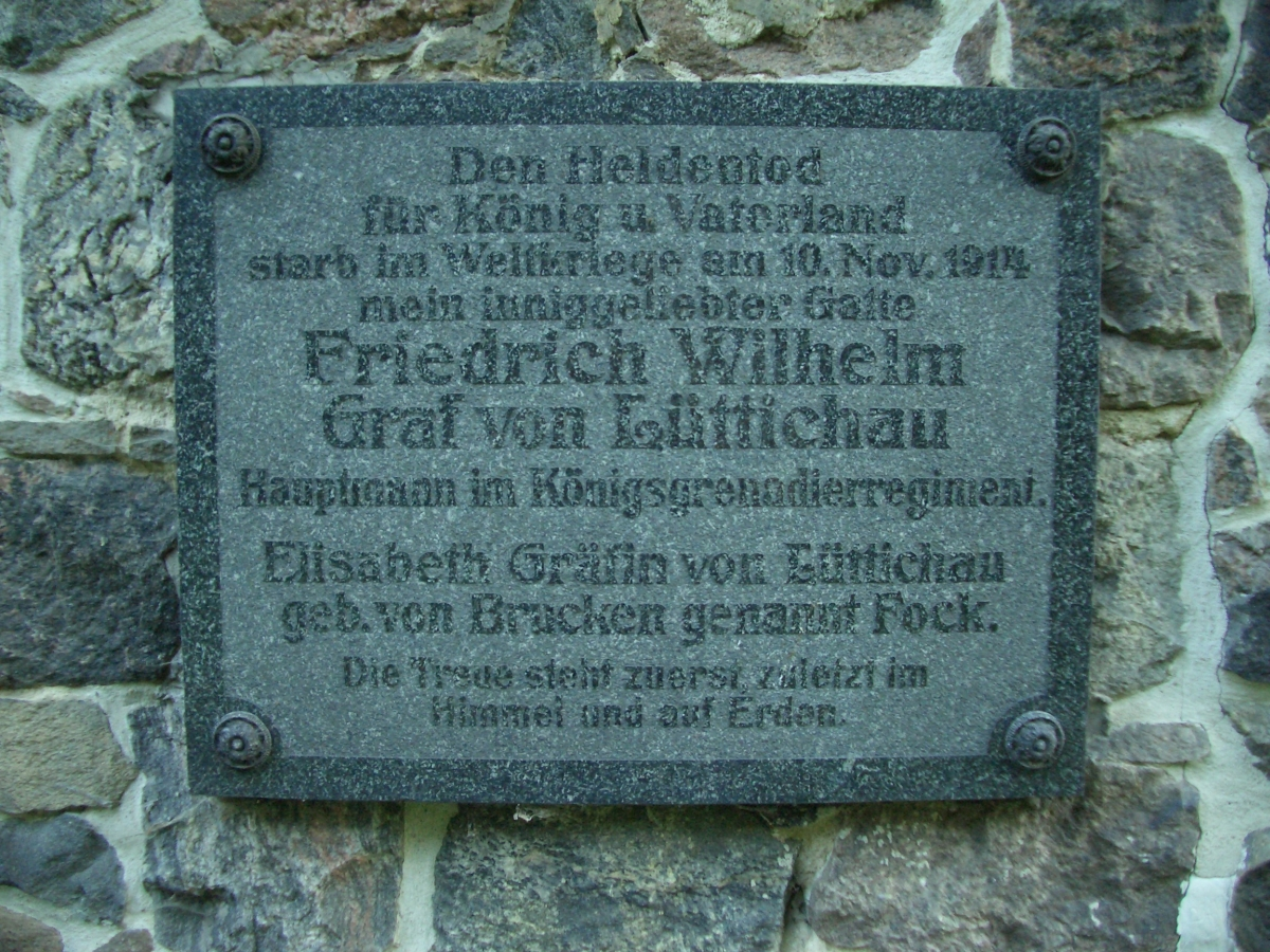 Listed Fieldstone church in Stücken. The church was destroyed by fire in 1848 and 1860 rebuilt in neo-Gothic style by the use of some remaind medieval stones. Stücken is a part of Michendorf in the district Potsdam-Mittelmark, state Brandenburg, Germany.